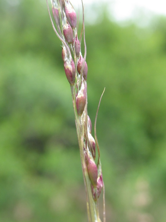 Piptochaetium stipoides on McCurdy Trail east of Dogtown (Marin County, California, US). "Photos copyrighted as, "Robert Steers/NPS," are public domain and can be used without requesting permission but please give credit."